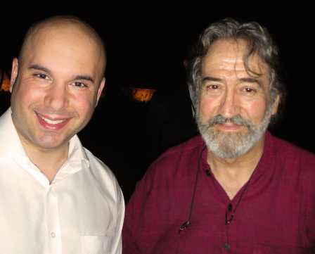 Ali Serim with Jordi Savall